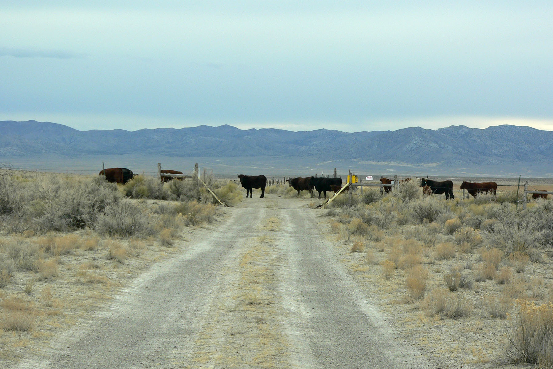 Cattle in Murphy Meadow, White River Valley, Nye County, Nevada